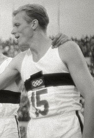 Left-right: Armin Hary, Martin Lauer, Bernd Cullmann, Walter Mahlendorf at the 1960 Olympics